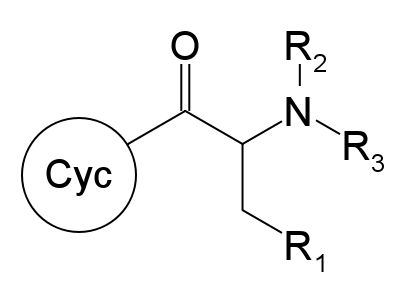 General structure of naphyrone analogues prohibited in UK